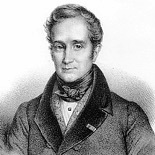 Achille-Léonce-Victor-Charles, 3rd duc de Broglie